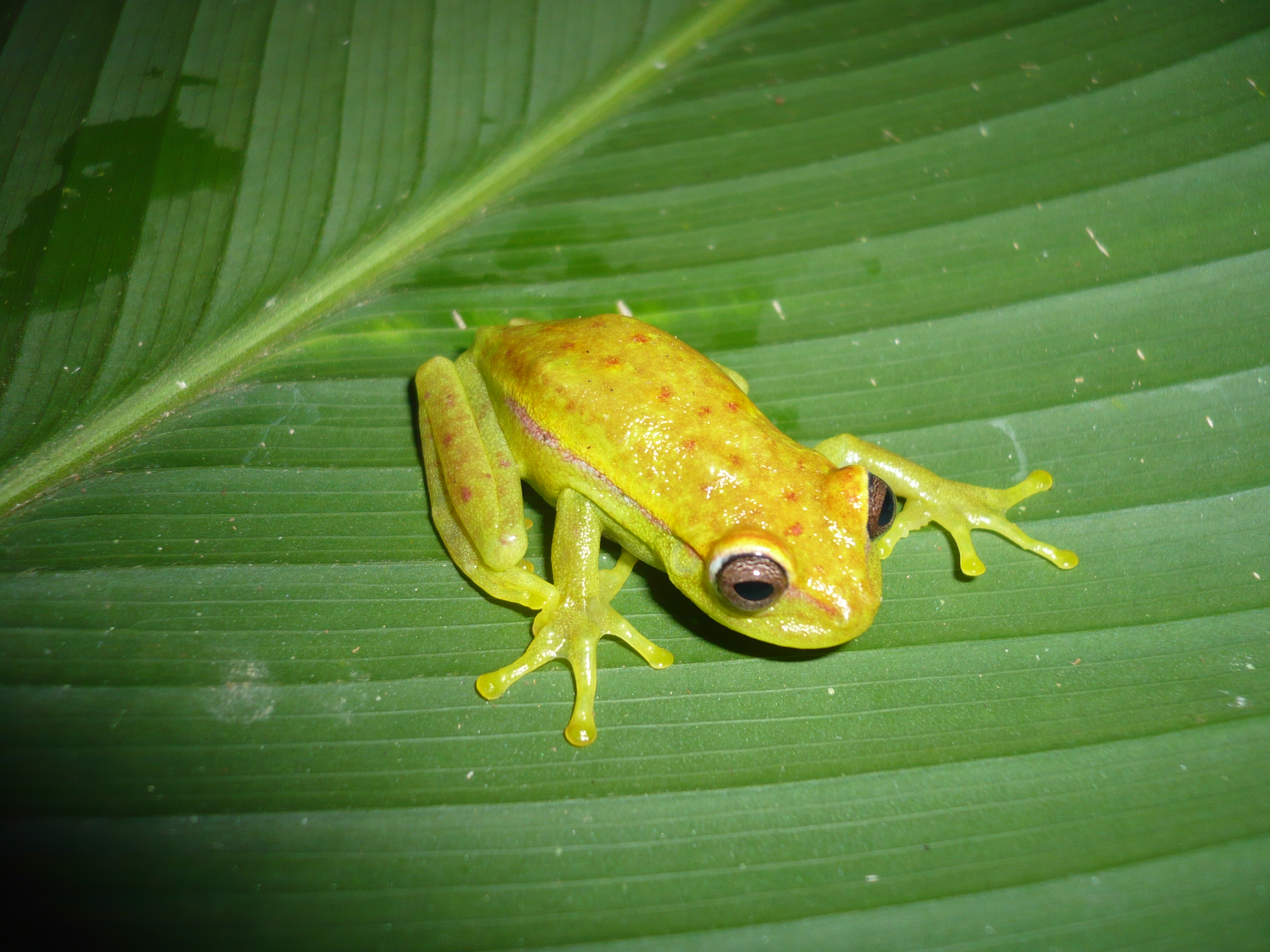 Hypsiboas punctatus in Madre de Dios, Peru. Male.